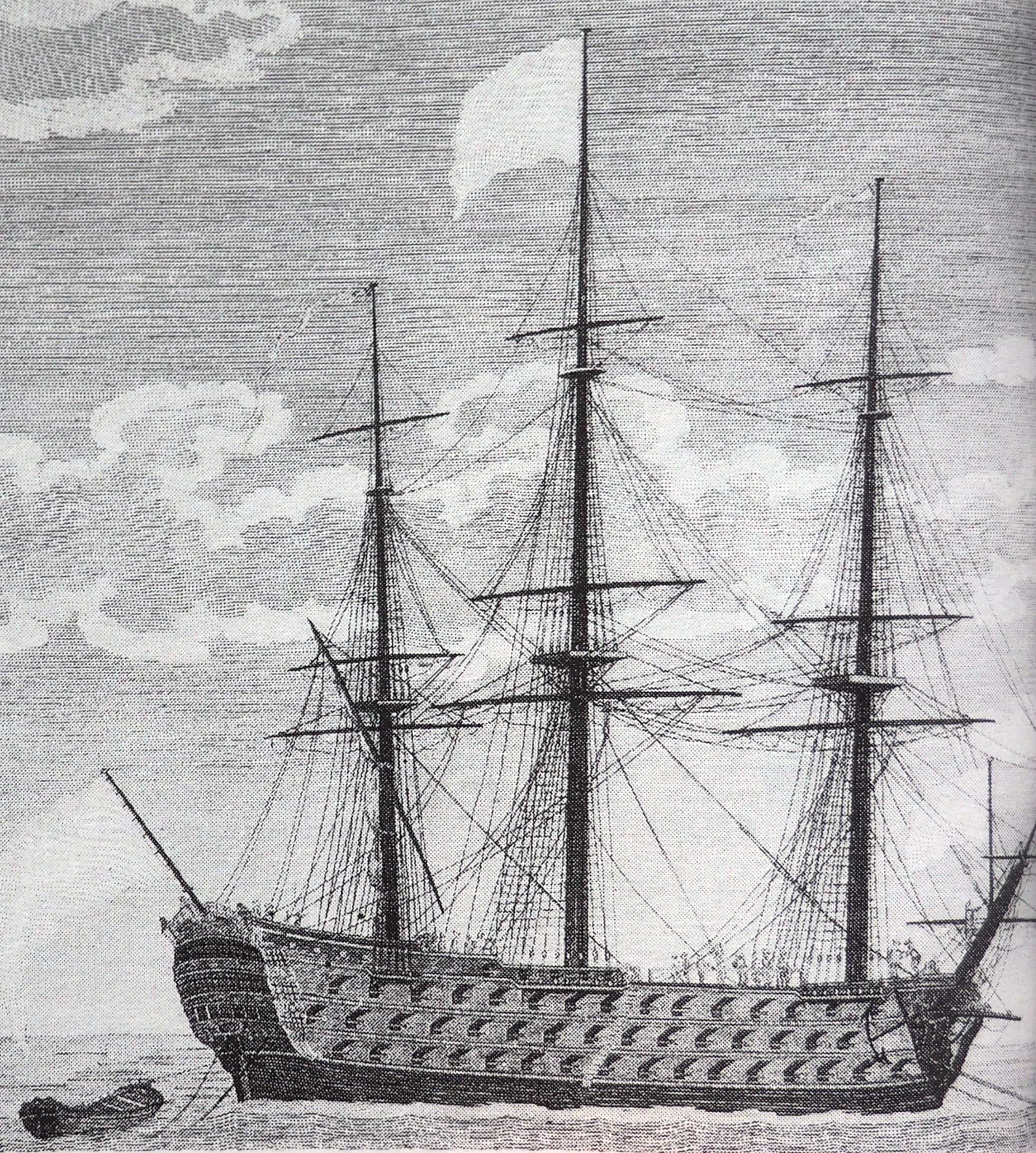 Contemporary engraving of Bretagne